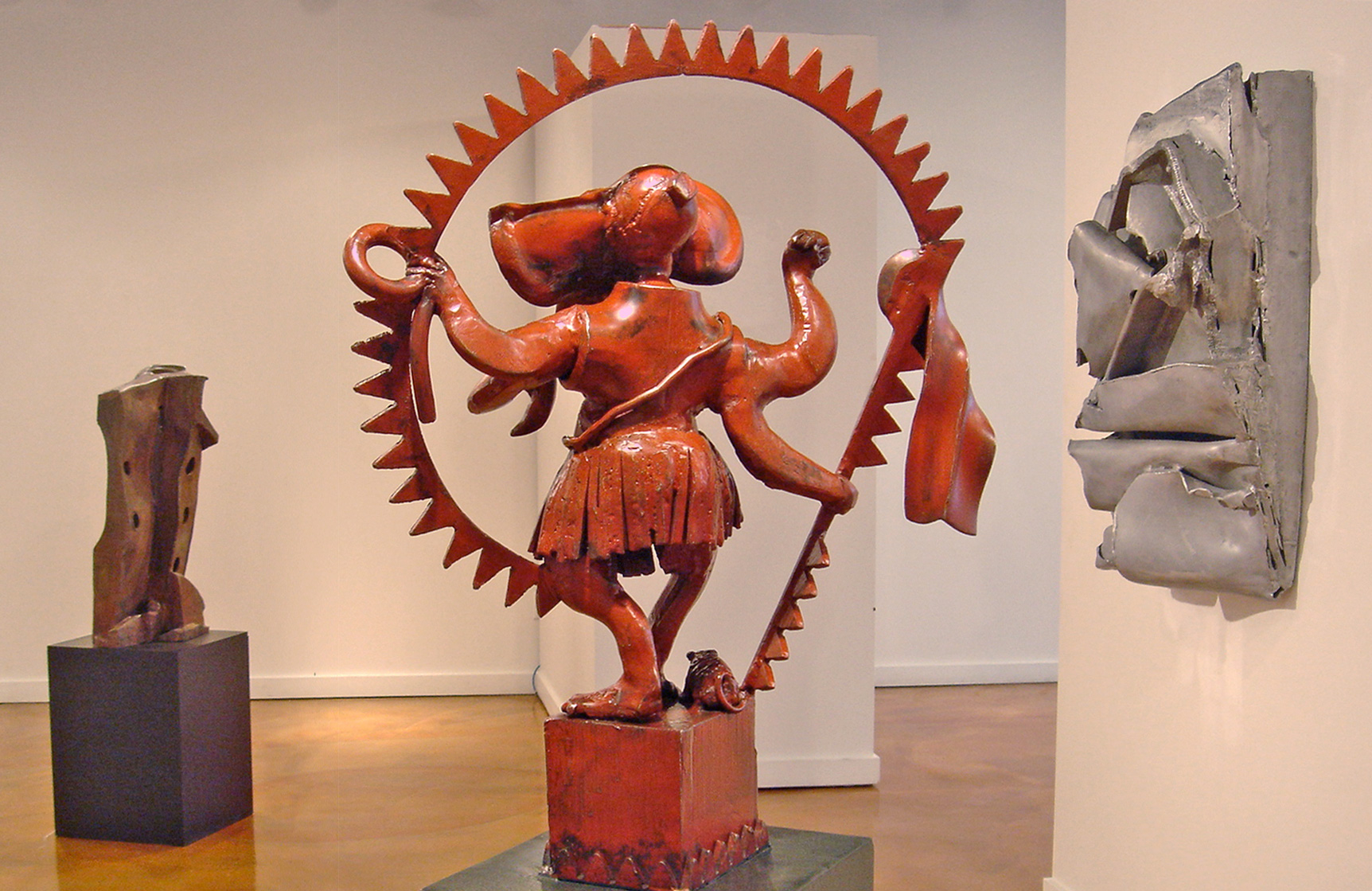 Installation view of the North Edmonton Sculpture Workshop's "New Directions" exhibition, featuring welded sculpture by Rob Willms, Ryan McCourt, and Andrew French.